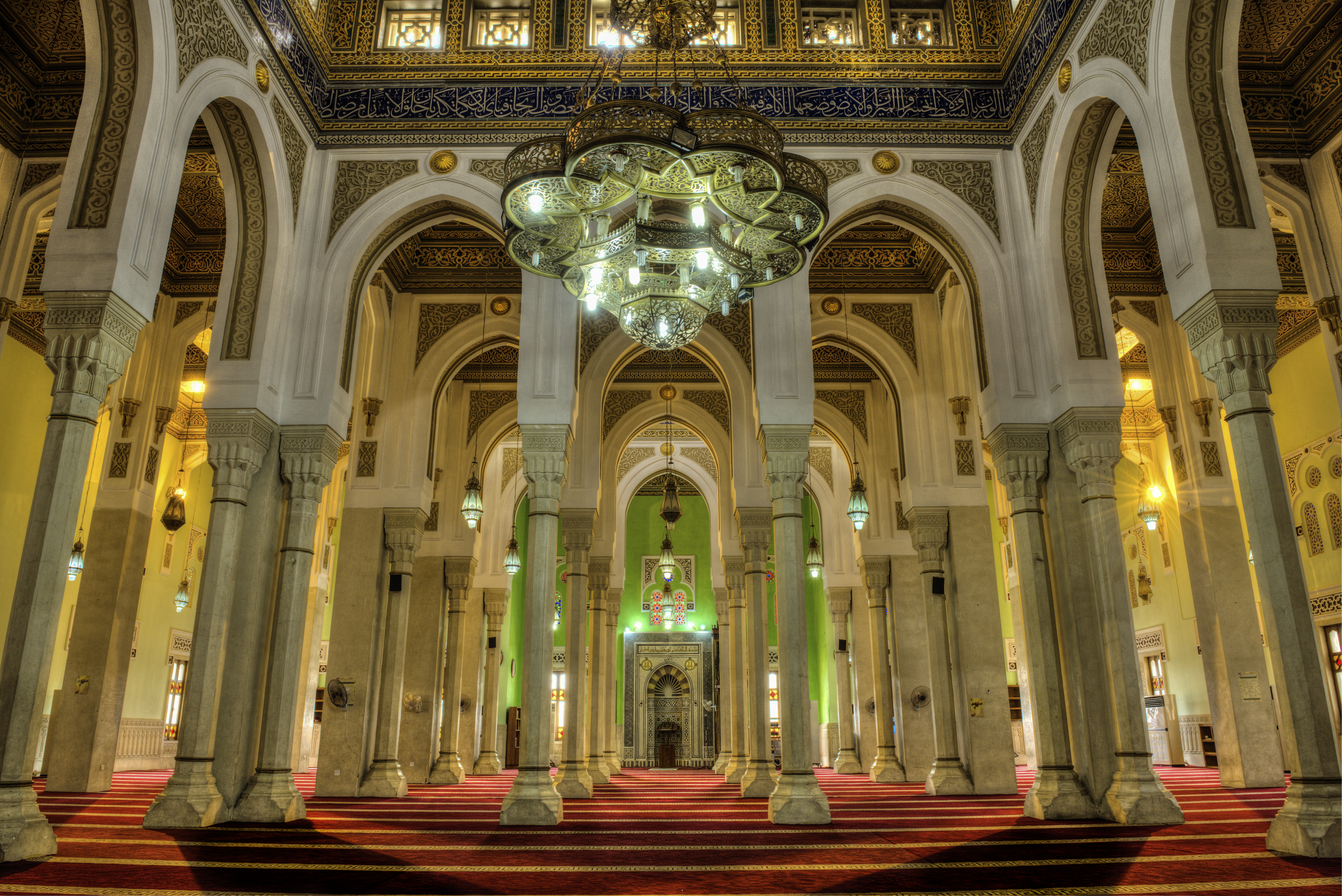 Mosque of Um al-Tabboul in Baghdad